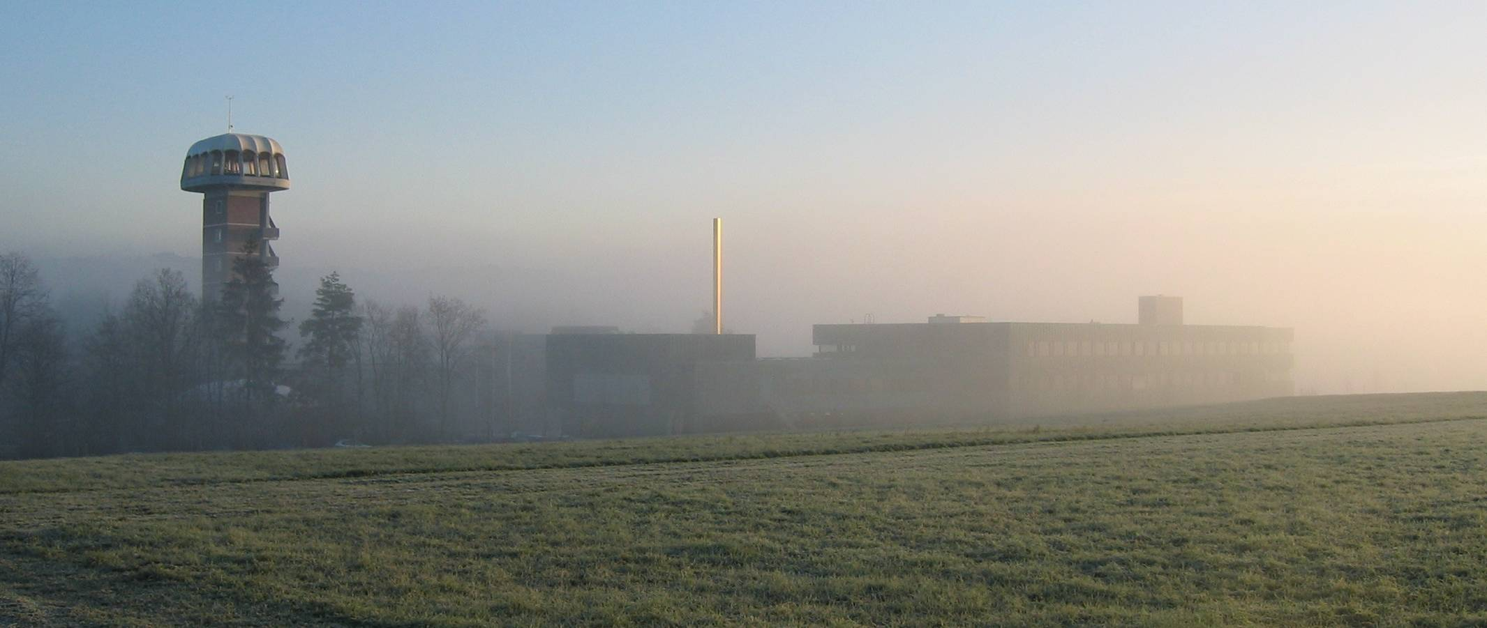 Swiss Federal Office of Metrology